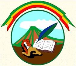 Coat of arms of this department of Guatemala Permission